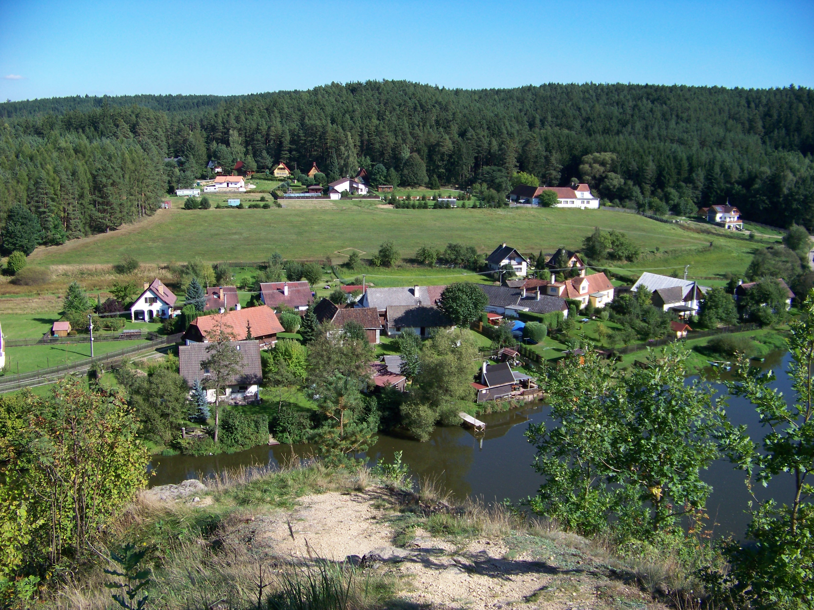 Dobronice u Bechyně, Tábor District, South Bohemian Region, the Czech Republic. - OpenStreetMap(Info)